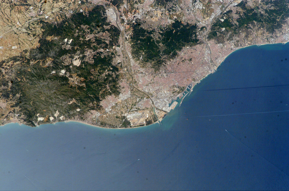 Astronaut photo of Barcelona, Catalonia, Spain. The white line in the lower right is an airplane contrail and the dark line above it is its shadow.